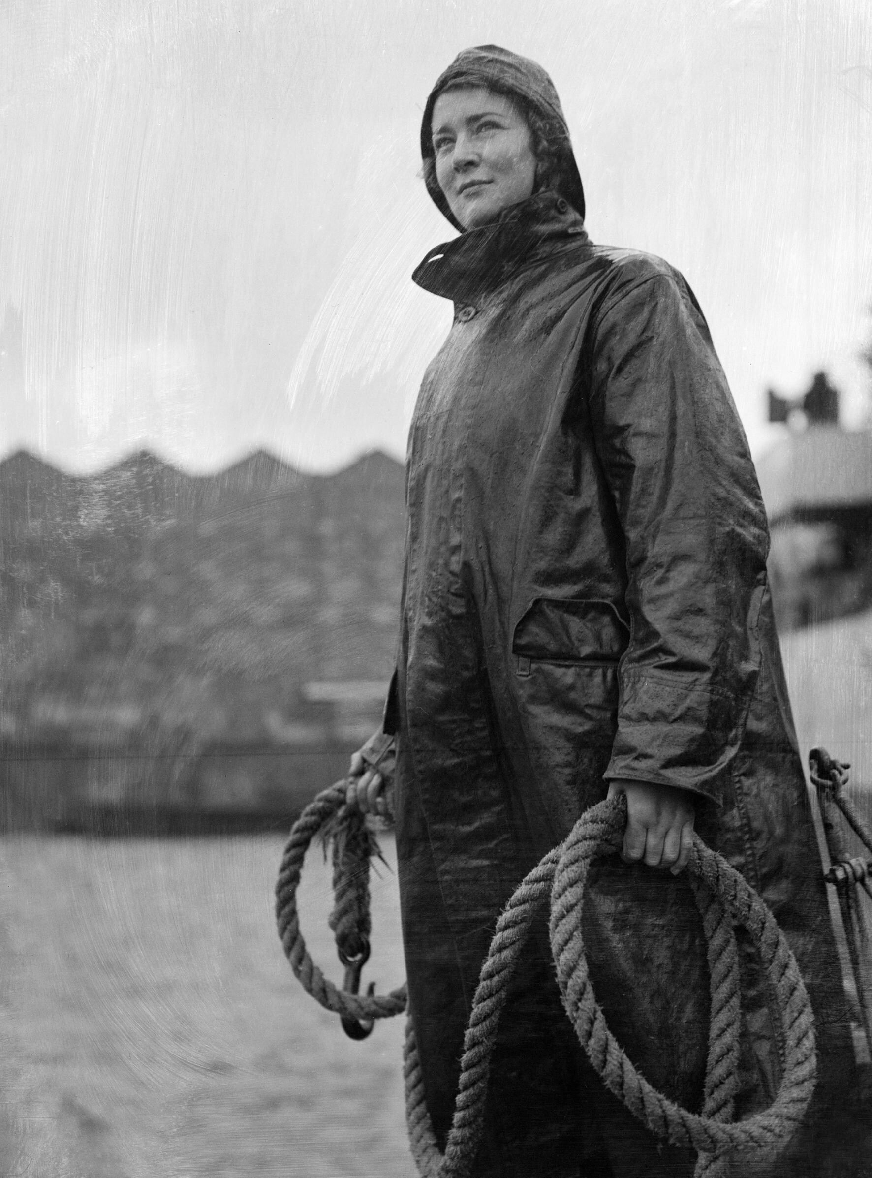 June Mortimer, a WRNS rating aboard a duty boat at Plymouth, November 1944. June Mortimer, a farmer's daughter from North Ireland, enjoys her life afloat even in "oilskin weather".